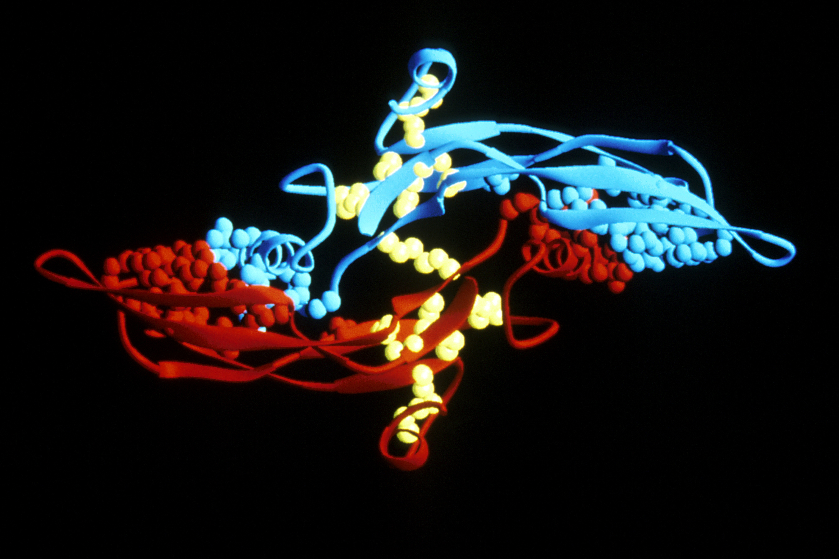 Title Computer Graphic of Tgf-beta Description A computer graphic of tgf-beta molecule. Tgf-beta belongs to a superfamily of fetal inducers and regressors, which signal specific patterns of cellular differentiation. Tgf-beta, a cytokine with three different isoforms, regulates many cellular functions including cell proliferation, differentiation, adhesion and migration. Four novel receptors were characterized that also act as serine/threonine kinases and one of these appears to be a tgf-beta receptor. Topics/Categories Historical, Graphics Type Color, Photo Source Dr. Michael Sporn